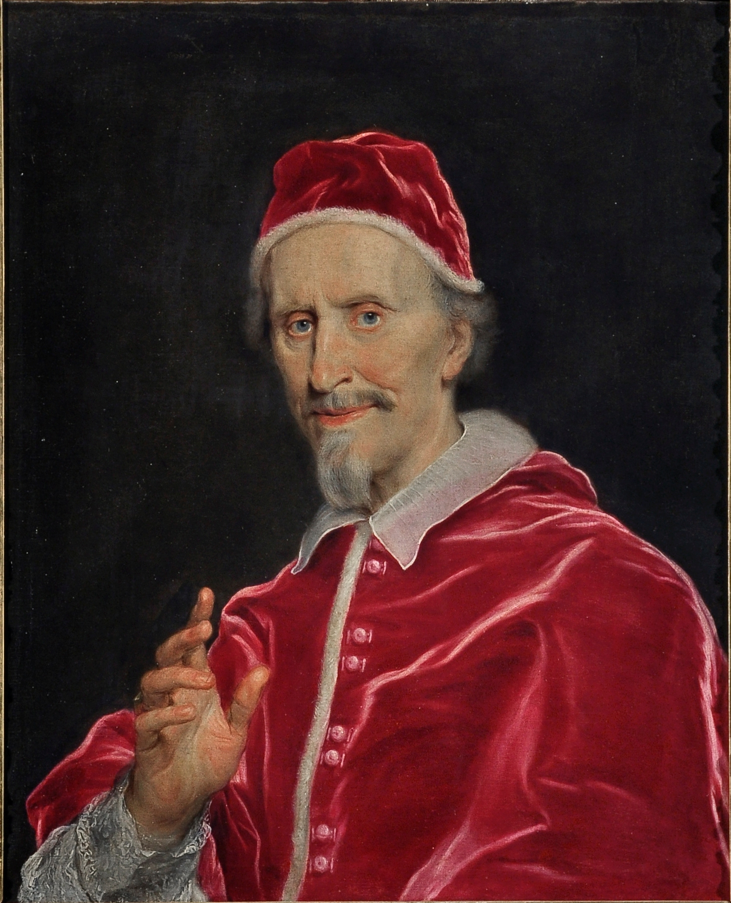 Clemente IX